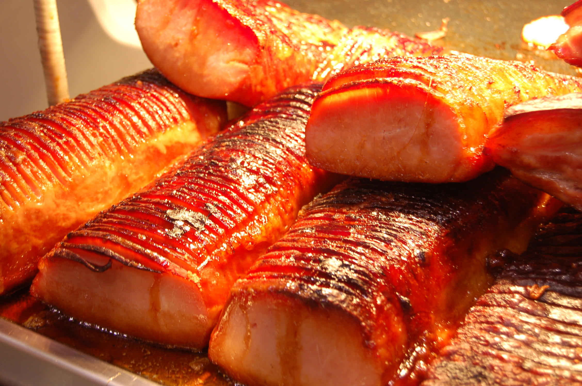 Roast peameal bacon with a maple glaze as sold by Witteveen Meats at the St. Lawrence Market in Toronto, Ontario, Canada. Photographer comment: "Seasonal honey roasted peameal/back bacon. Yummy! So juicy and moist..."